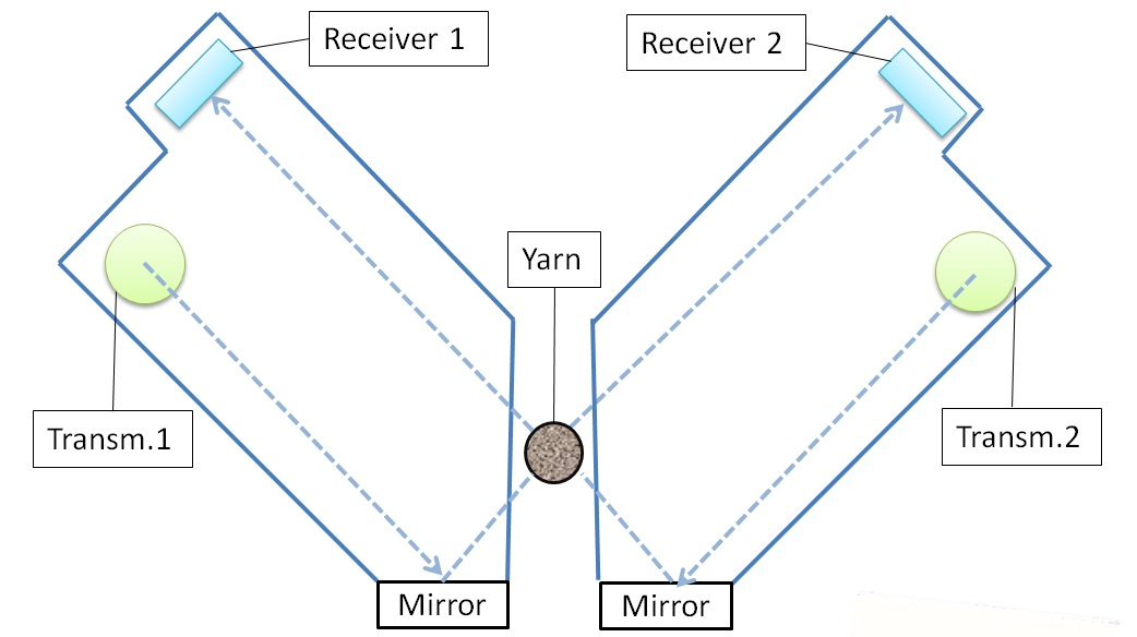 Roundness-density-diameter for yarn